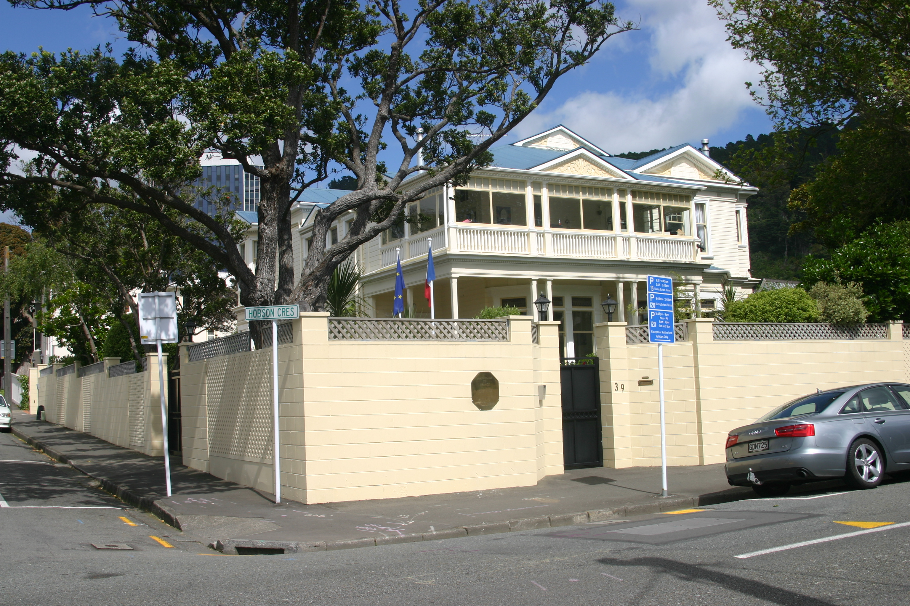 Residence of the French Ambassador in Wellington, New Zealand.